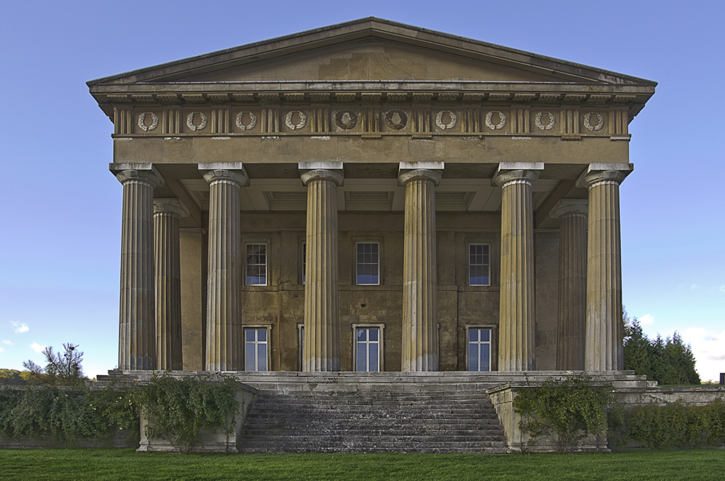 Portico of Northington Grange, Hampshire, England: southern aspect